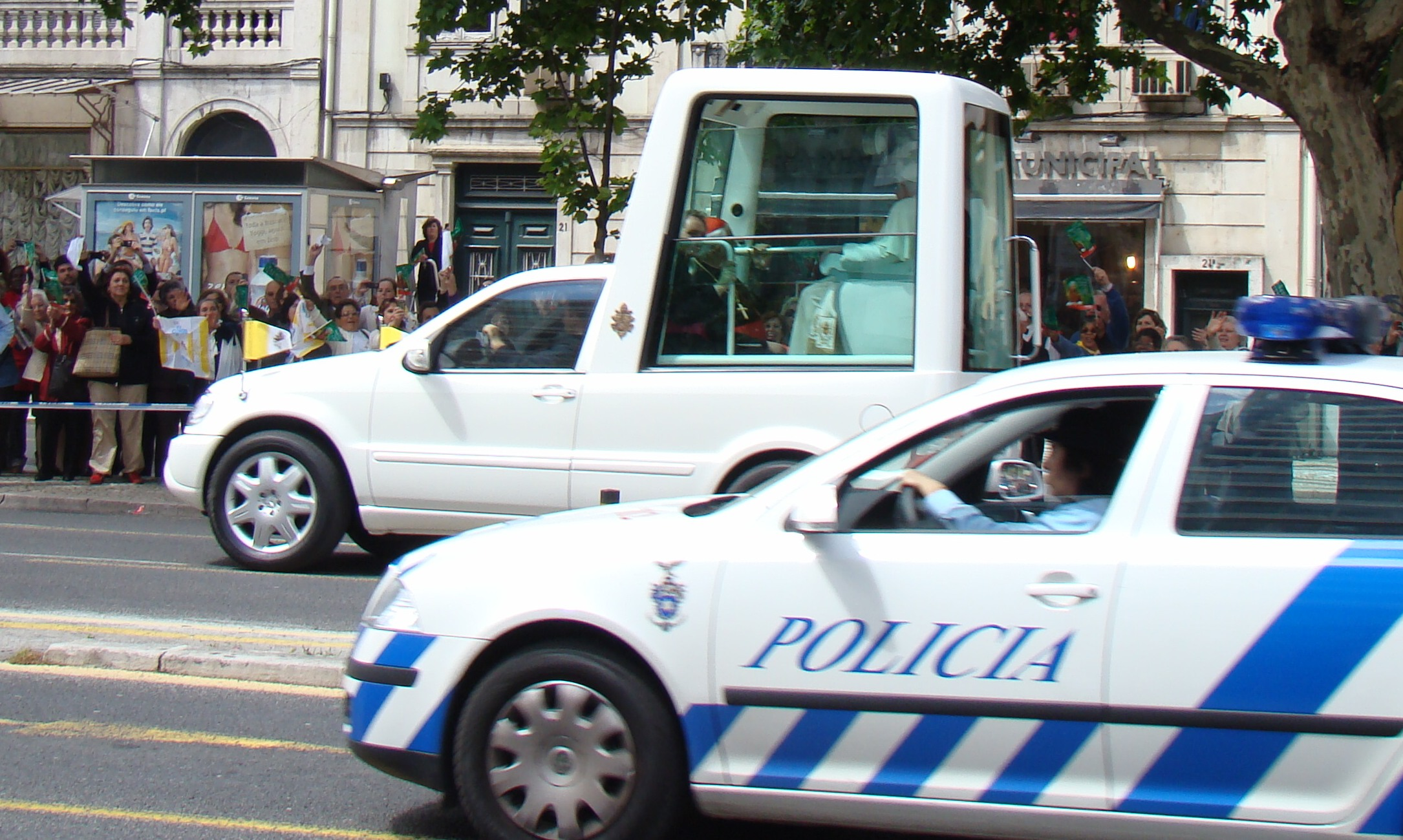 Pope Benedict XVI in his popemobile, at the arrival motorcade in Lisbon, May 11, 2010